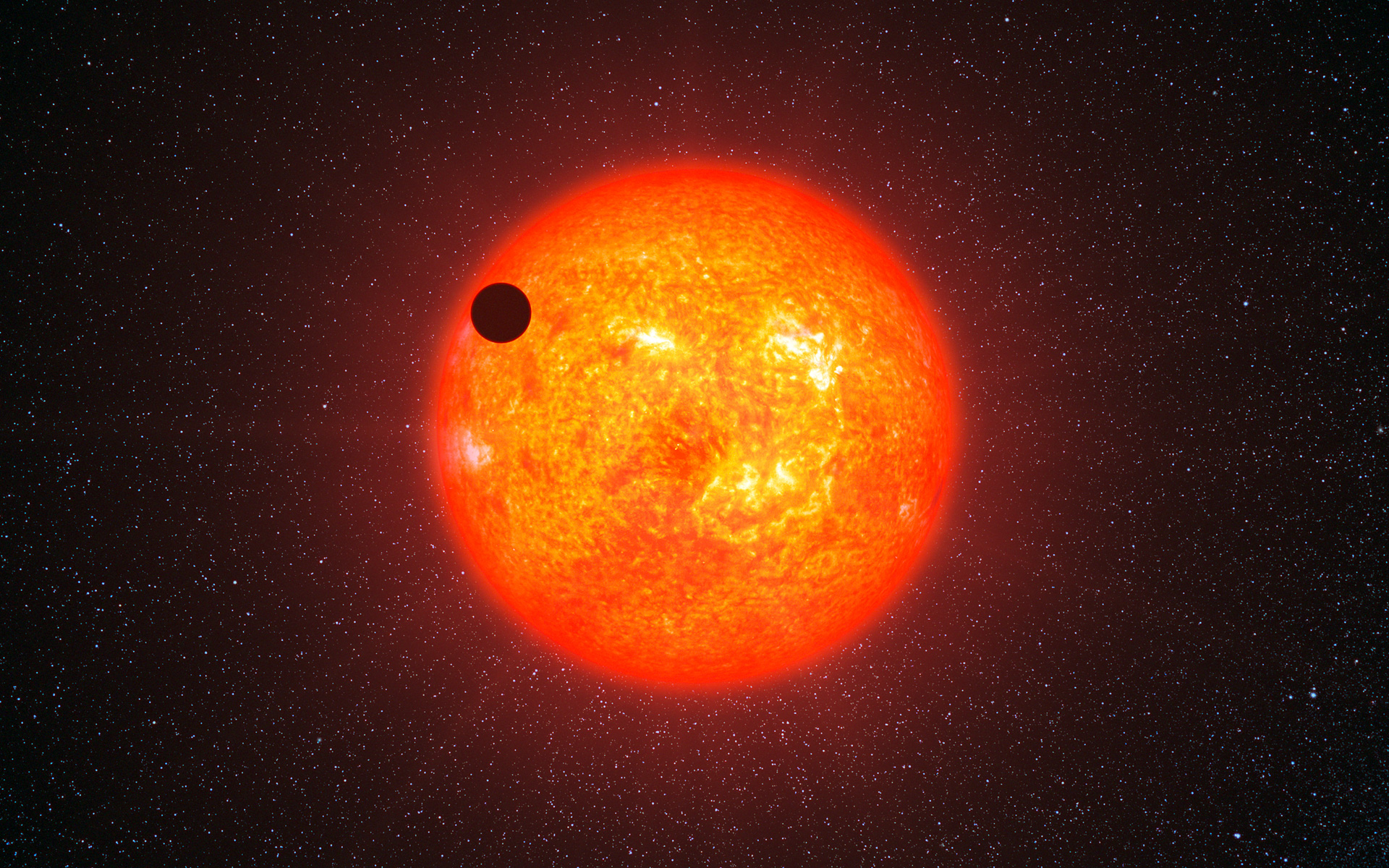 This artist’s impression shows the super-Earth exoplanet GJ 1214b passing in front of its faint red parent star. This is the first super-Earth exoplanet to have had its atmosphere analysed. The exoplanet, orbiting a small star only 40 light-years away from us, has a mass about six times that of the Earth. GJ 1214b appears to be surrounded by an atmosphere that is either dominated by steam or blanketed by thick clouds or hazes.